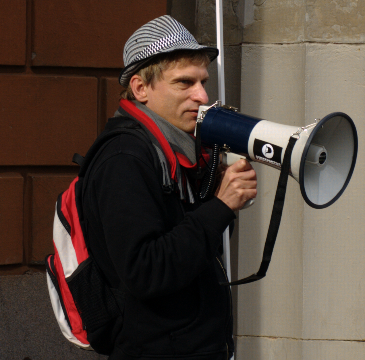 IT-entrepreneur Oscar Swartz speaking against the FRA law on the 2008 opening of the Riksdag in Sweden. Crop from